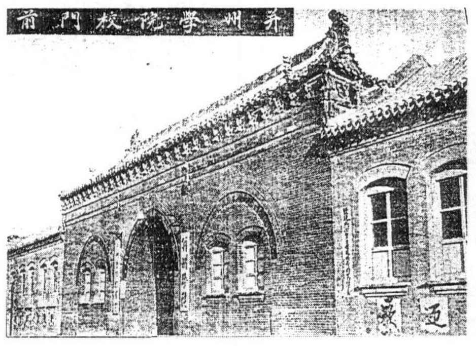 Entrance, Bingzhou College